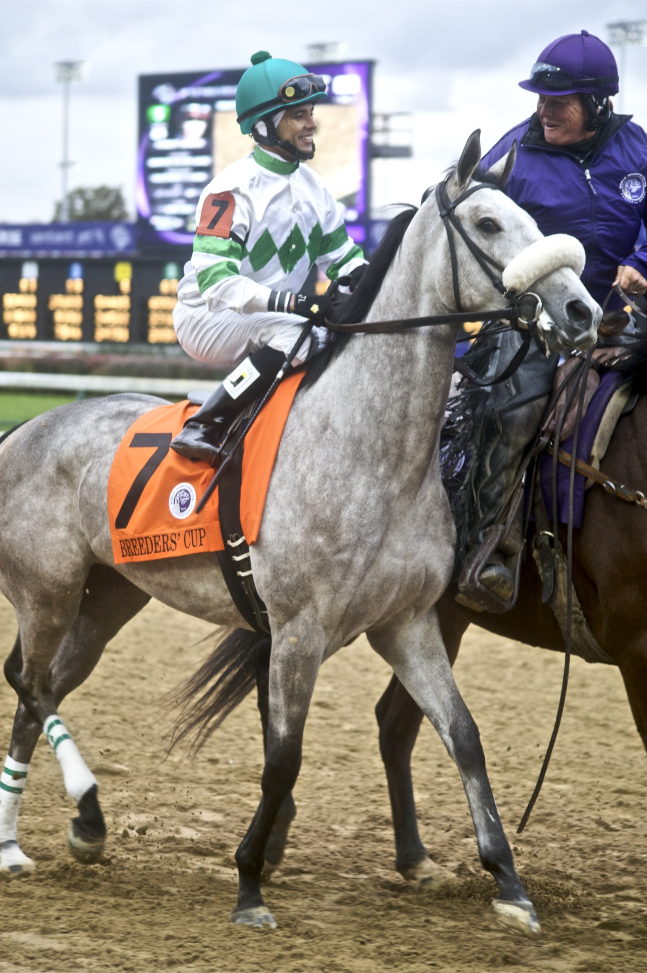 Jockey Jose Lezcano on filly Winter Memories.